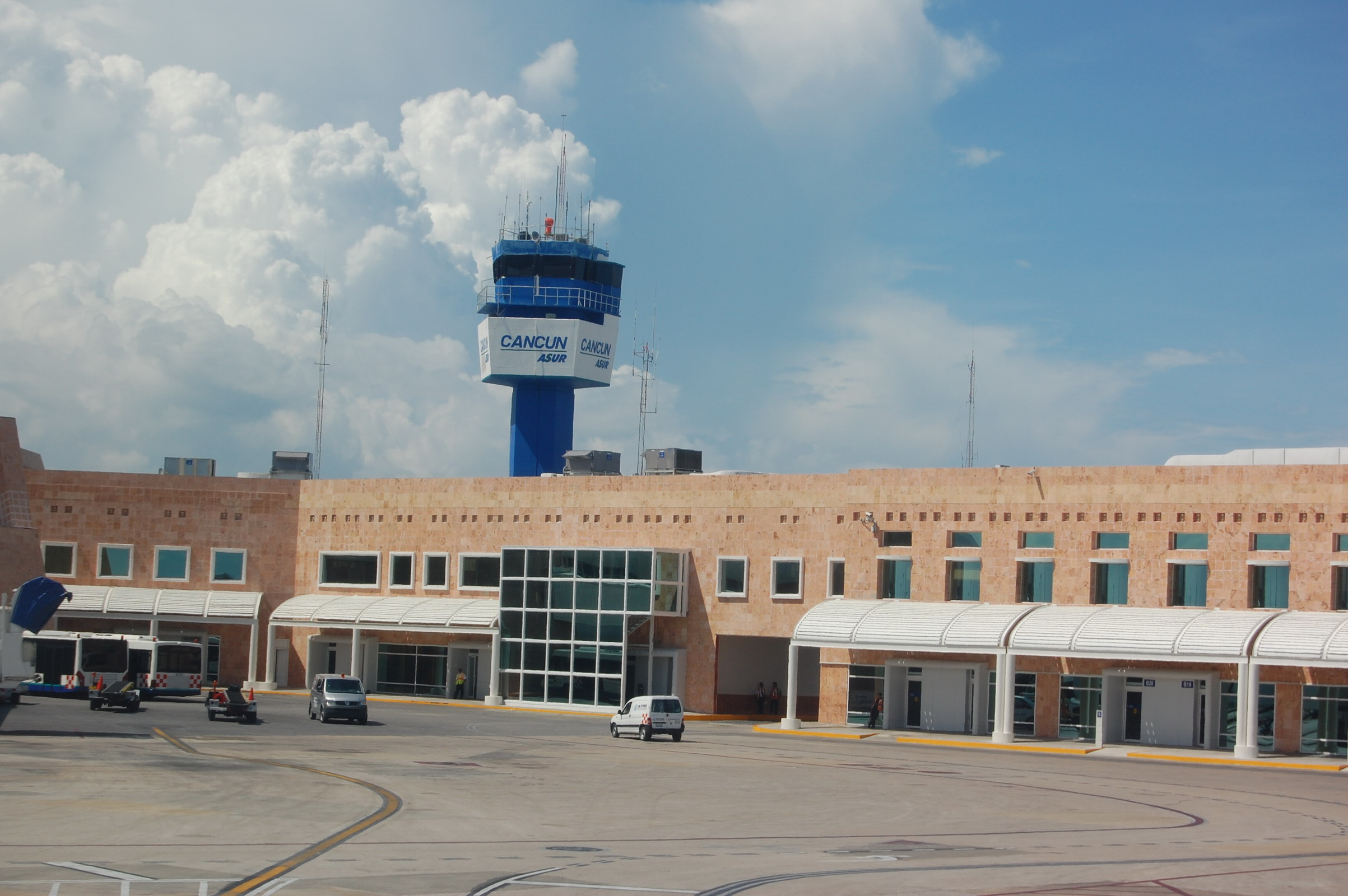 Airport of Cancún.